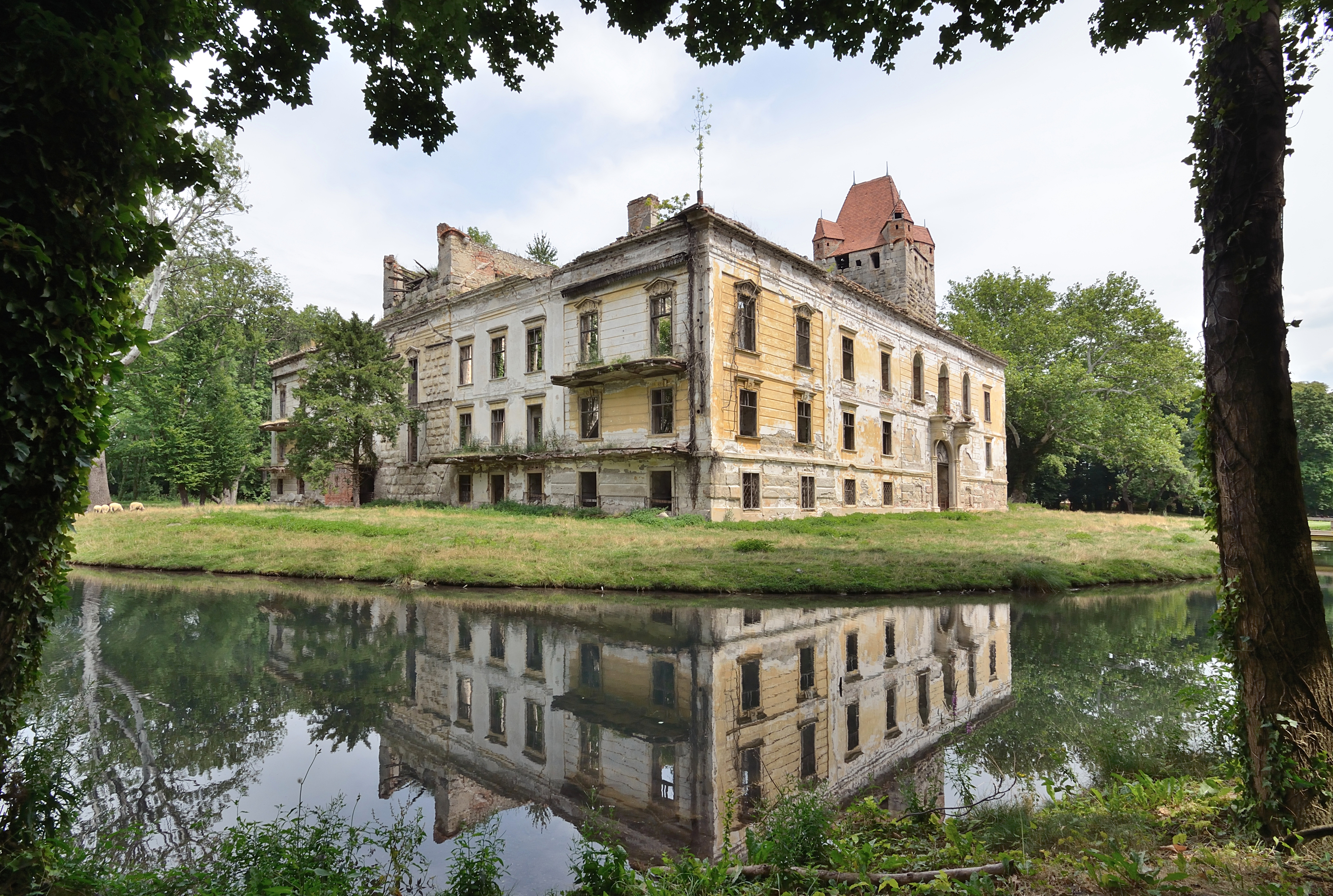 Ruins of palace Pottendorf and chapel. Northwest corner